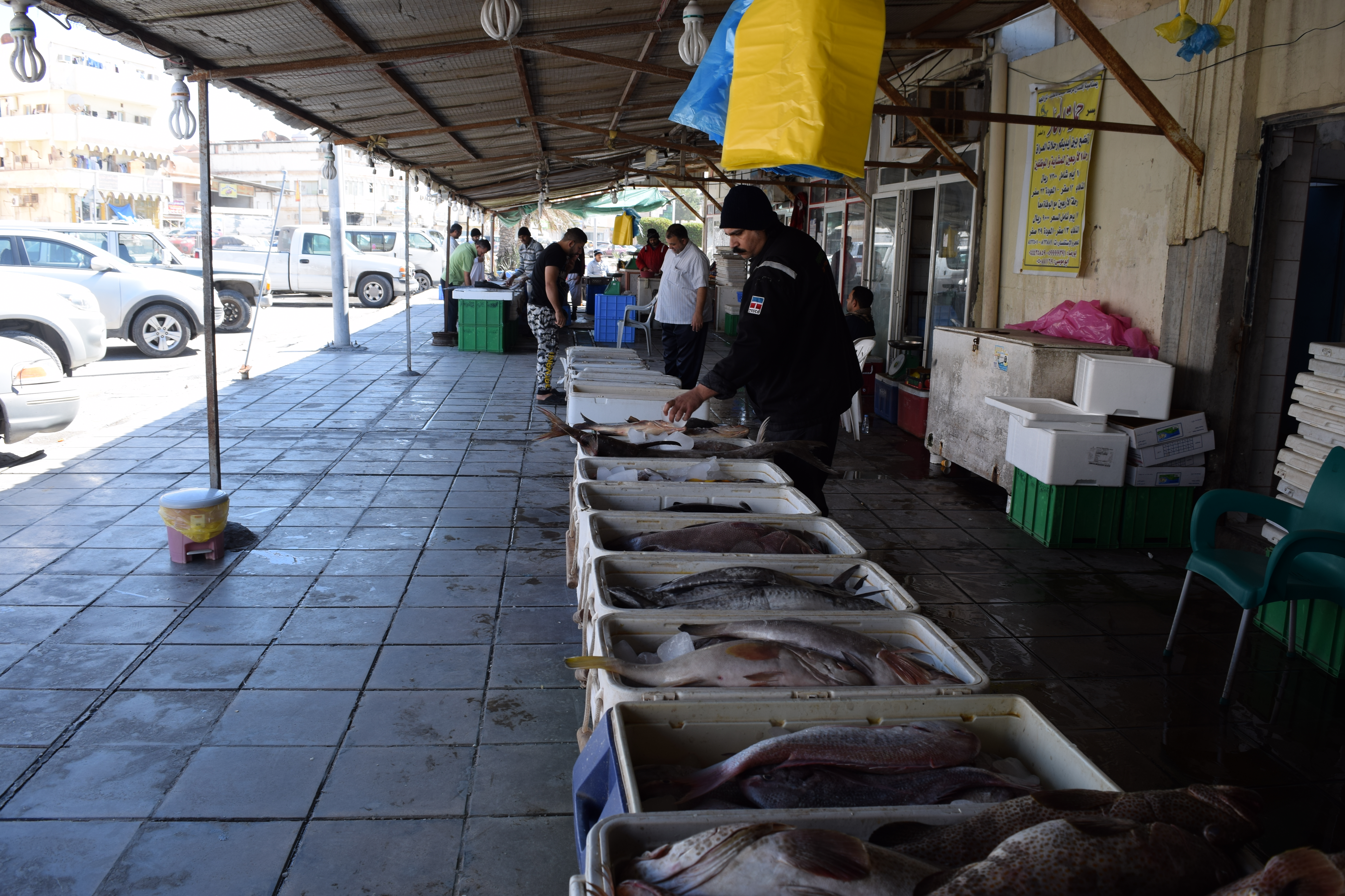 Souq Samak Tarout (Tarout fish market)